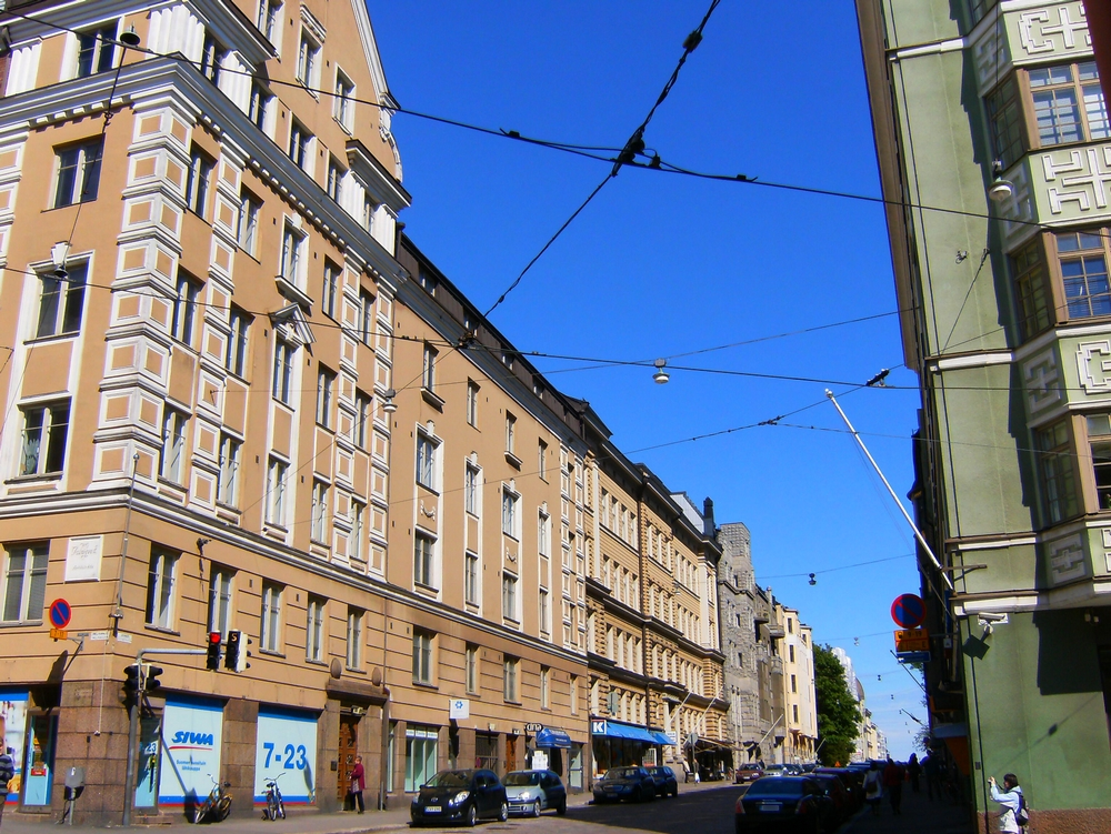 The junction of the streets "Liisankatu" and "Snellmaninkatu" (horizontal), Helsinki, Finland; buildings of the 1920's